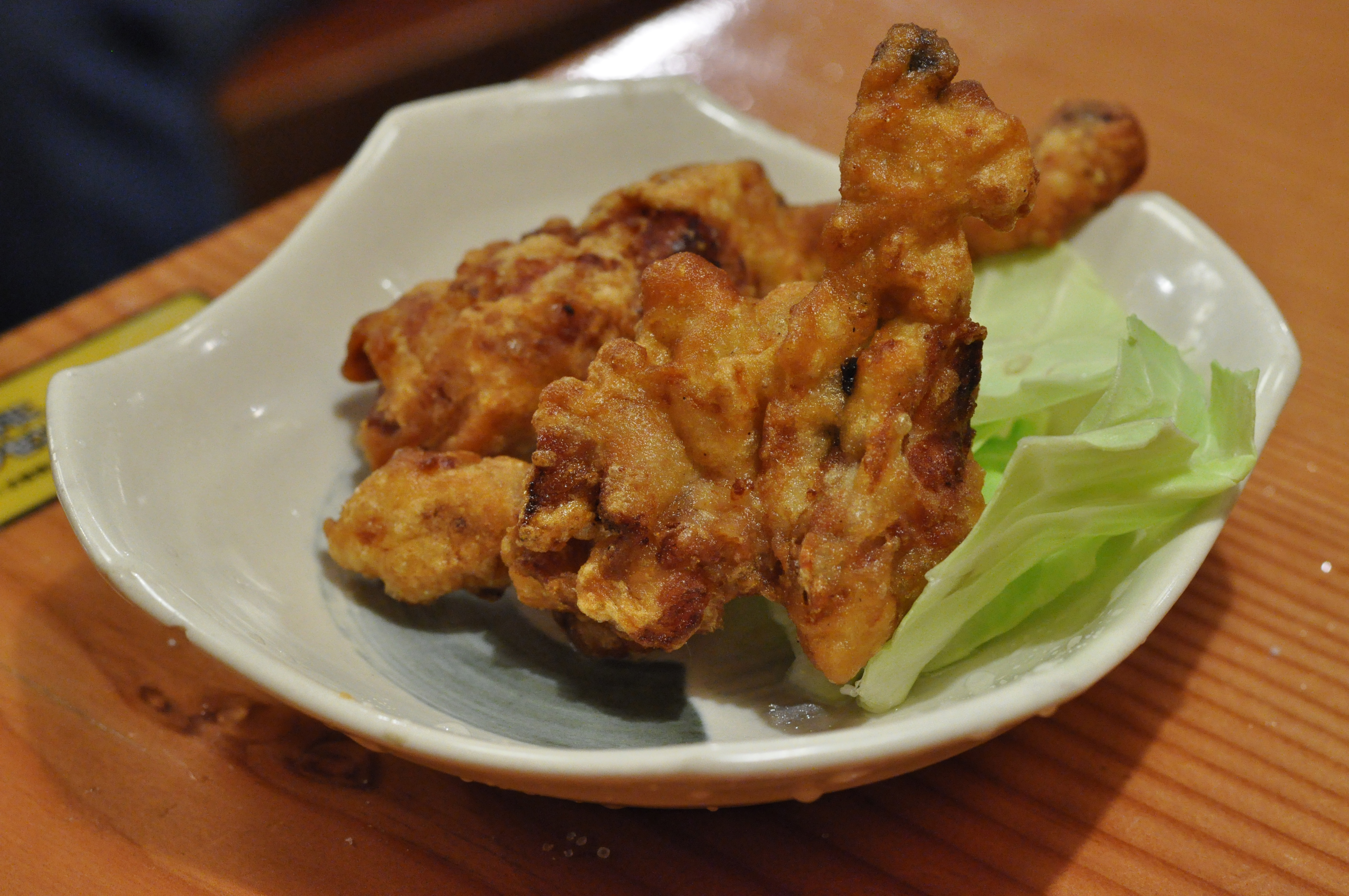 Chicken karaage